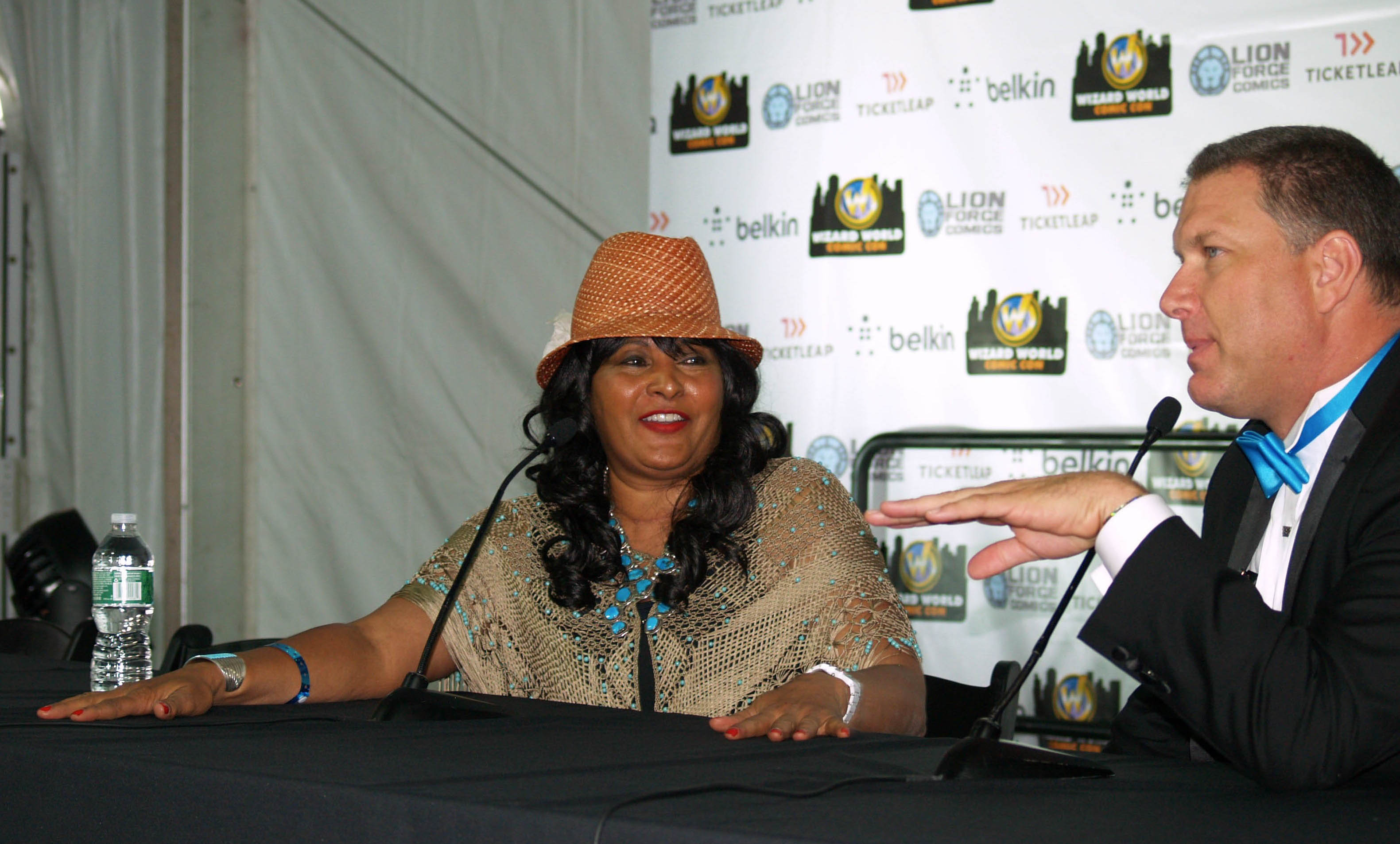 Actress Pam Grier during a June 28, 2013 Q&A panel at the Wizard World New York Experience Comic Con in Manhattan. The moderator on the right is Jarrett Crippen, an Austin, Texas police detective who won the second season of the reality television series that Lee hosts, Who Wants to Be a Superhero?, with his character, the Defuser. This photo was created by Luigi Novi. It is not in the public domain, and use of this file outside of the licensing terms is a copyright violation.